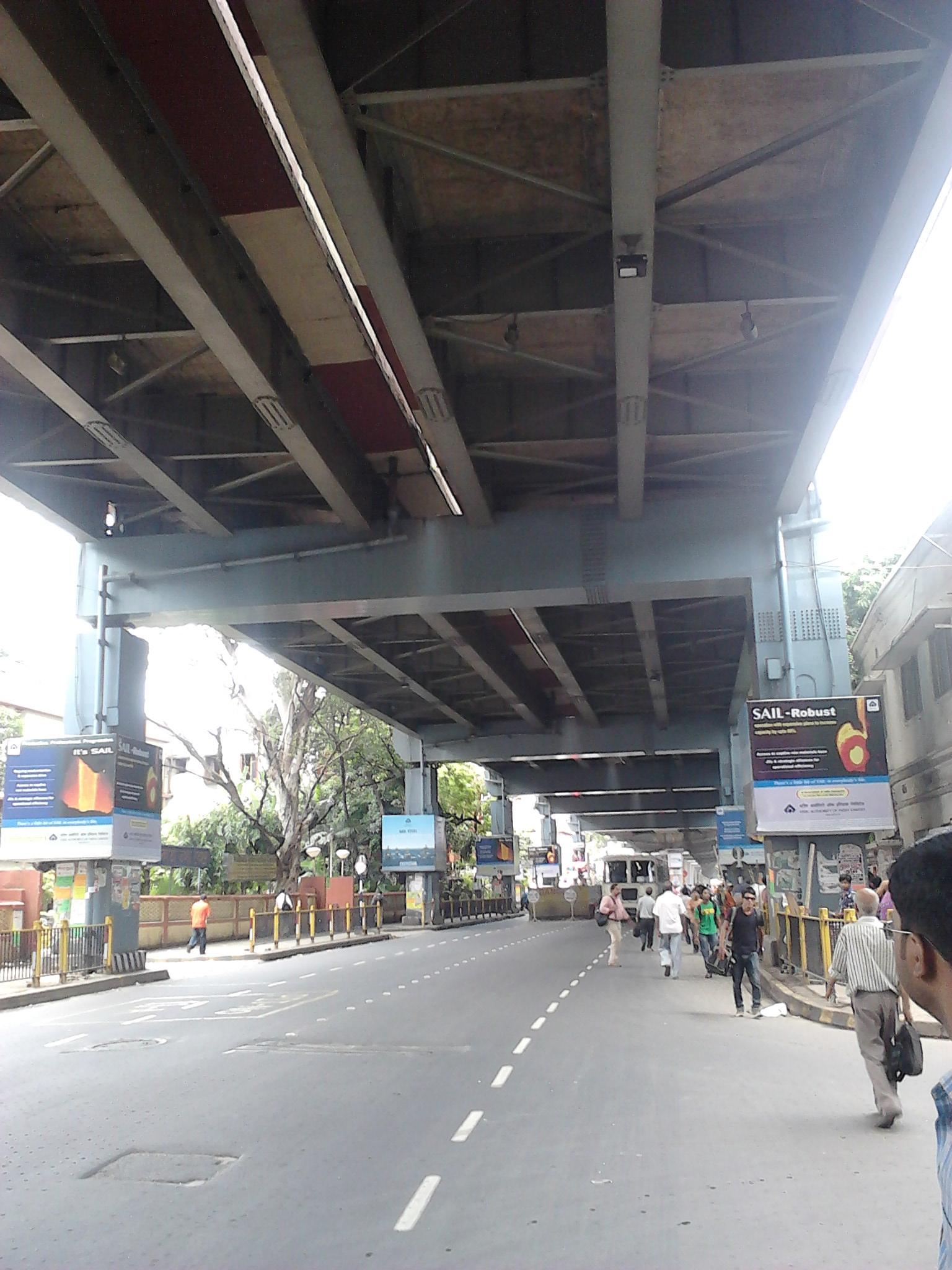 Acharya Jagadish Chandra Bose road at the Kolkata Information Centre, Kolkata.